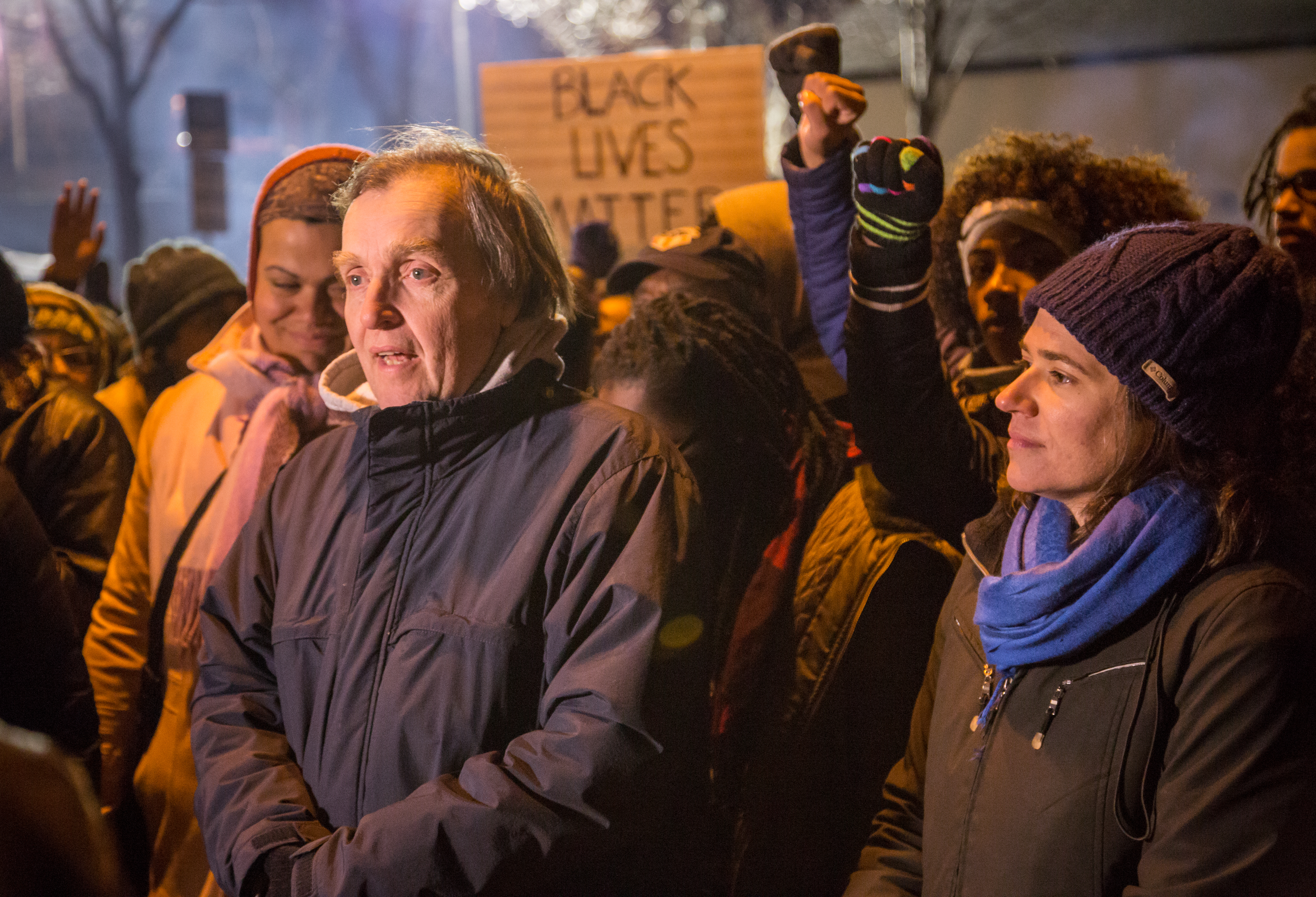 Minneapolis City Council members Cam Gordon, Lisa Bender, and Alondra Cano show their support for community members gathered for a fifth night of protests outside the Minneapolis Police Department's 4th Precinct, and call on Governor Mark Dayton to "release the tapes" documenting the police shooting death of Jamar Clark. Photo: Tony Webster